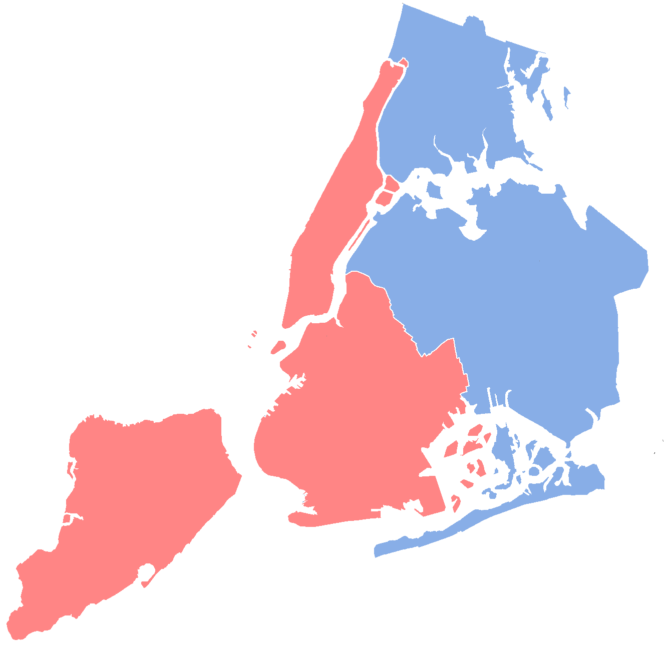 Results of the 1901 New York City Borough President elections by borough. Red is Fusionist/Republican, Blue is Democratic. All candidates won with vote percentages between 50 and 60.